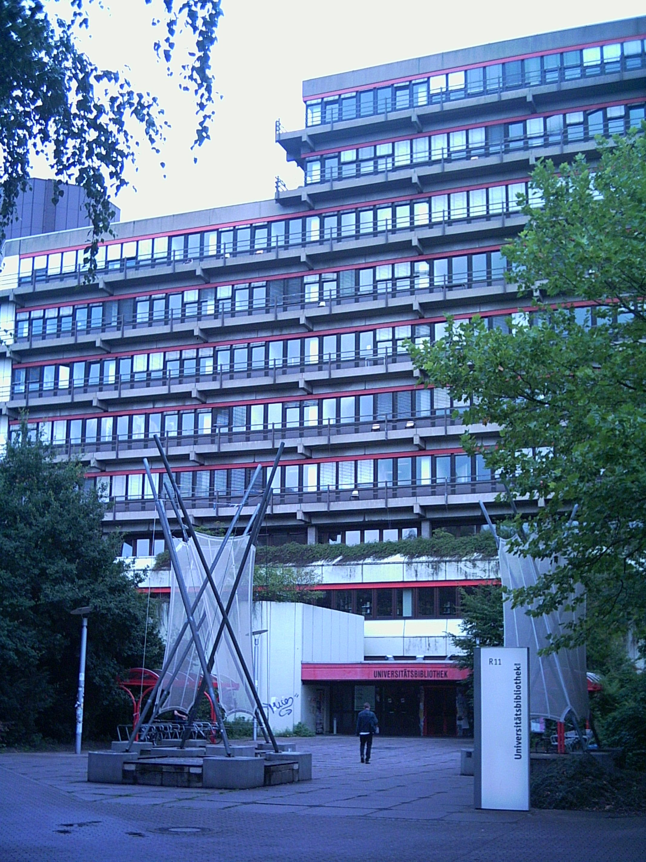 A building of Uni-DuE at Campus Essen